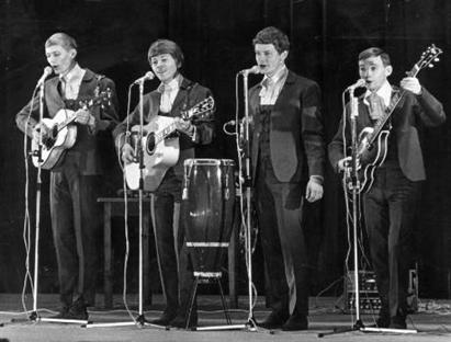 Hootenanny Singers in 1966. From left: Hansi Schwarz, Björn Ulvaeus, Johan Karlberg and Tony Roth.